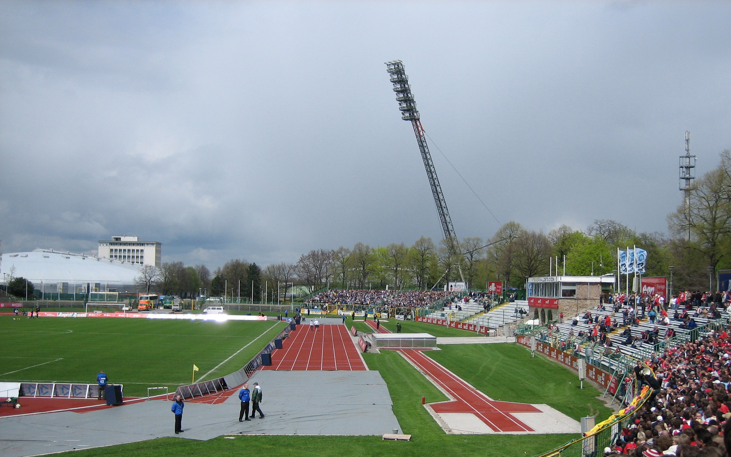 This picture shows the running tracks in the Steigerwaldstadion, a stadium in Erfurt, Germany.